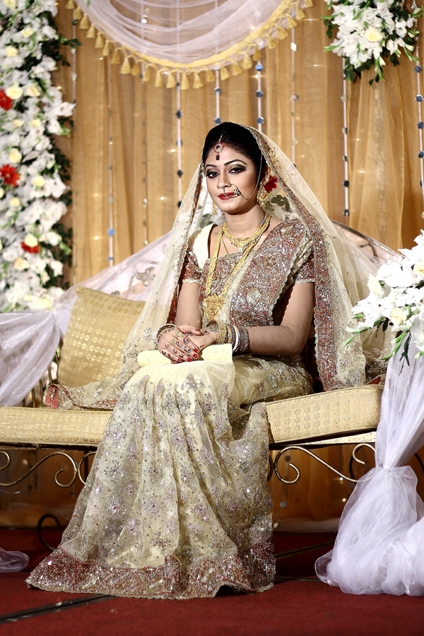 Wedding Photography, Bangladesh